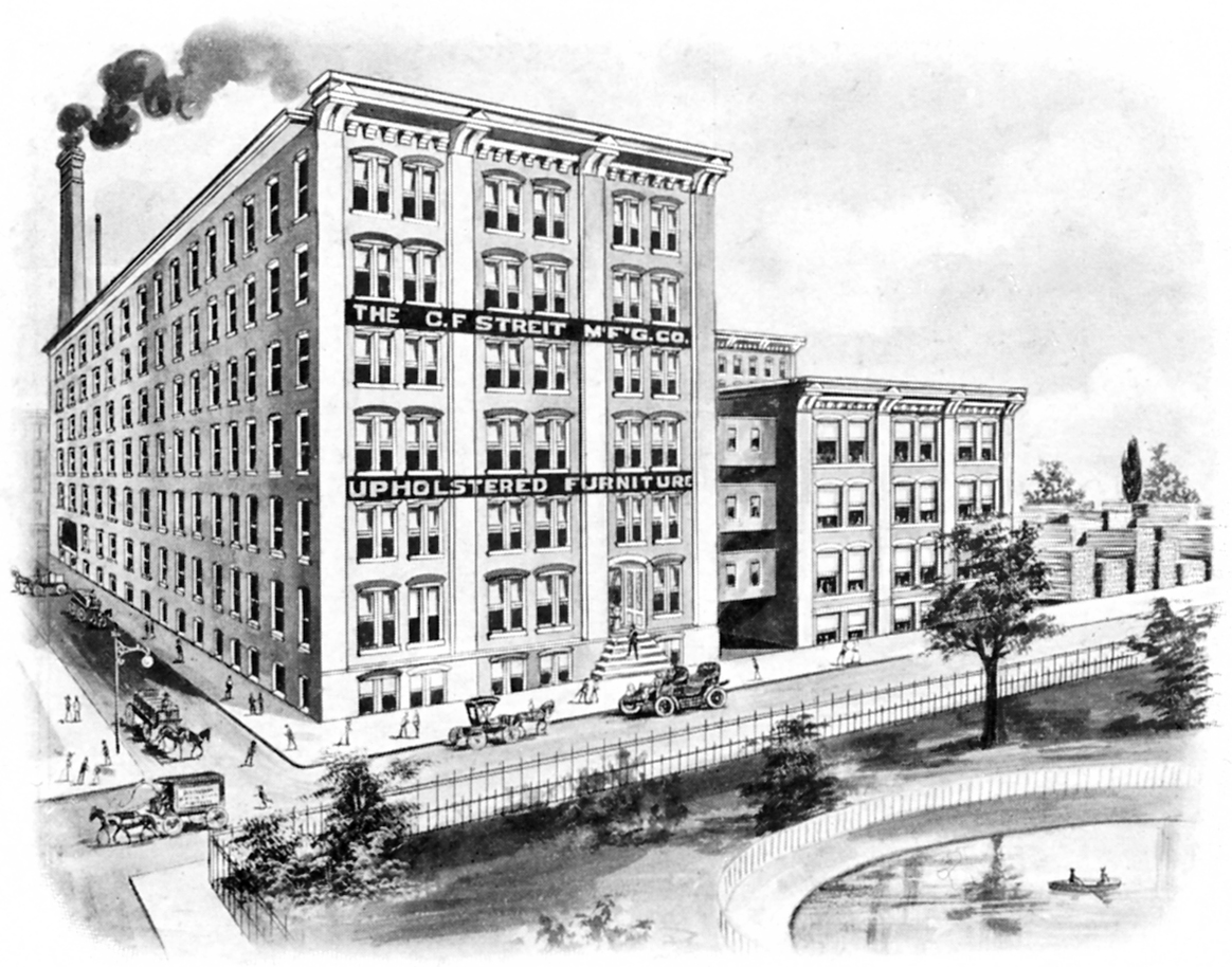 "The Offices, Factories and Lumber Yards, where Streit Guaranteed Furniture is made."